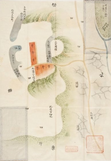 Syokoku kojō no zu - Sanada Maru. Collection of the Hiroshima City Central Library.